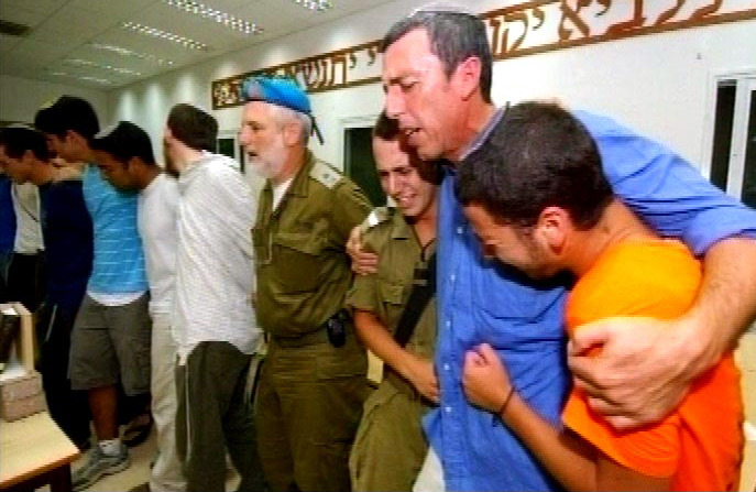 August 17, 2005. Residents of Atzmona hold a ceremony for the closing of the pre-military preparatory program in the town. The ceremony was attended by OC Southern Command at the time, Maj. Gen. Dan Harel. The evacuation of Atzmona pictured took place as part of the Gaza Disengagement in the summer of 2005.